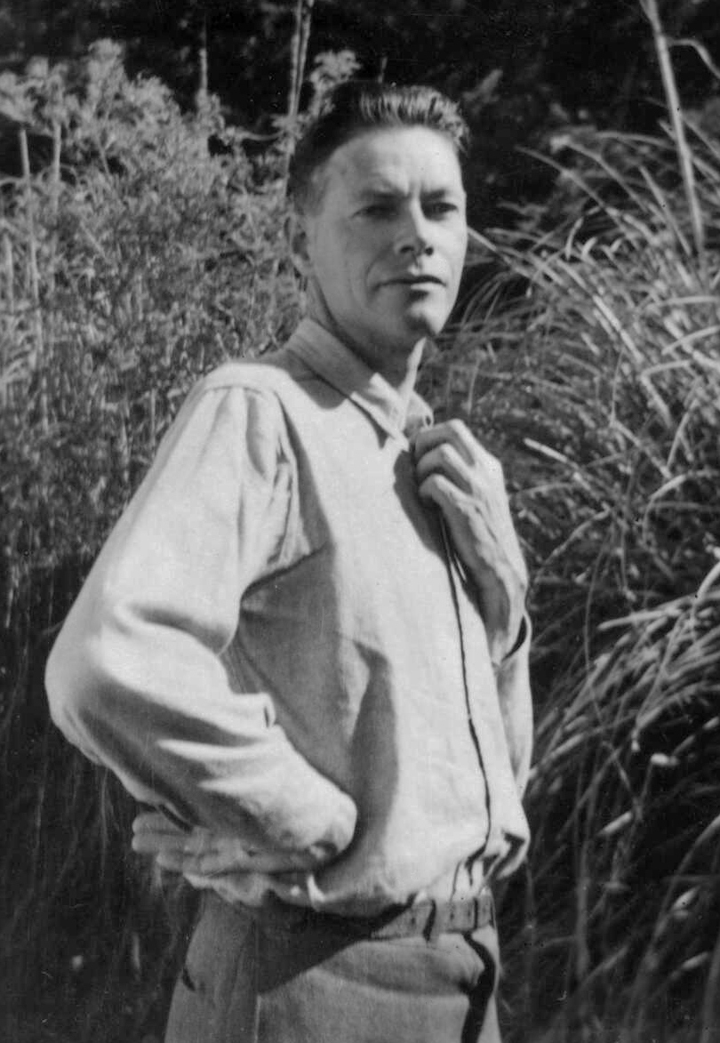 Portrait of Roderick David Finlayson, taken by an unidentified photographer, circa 1963